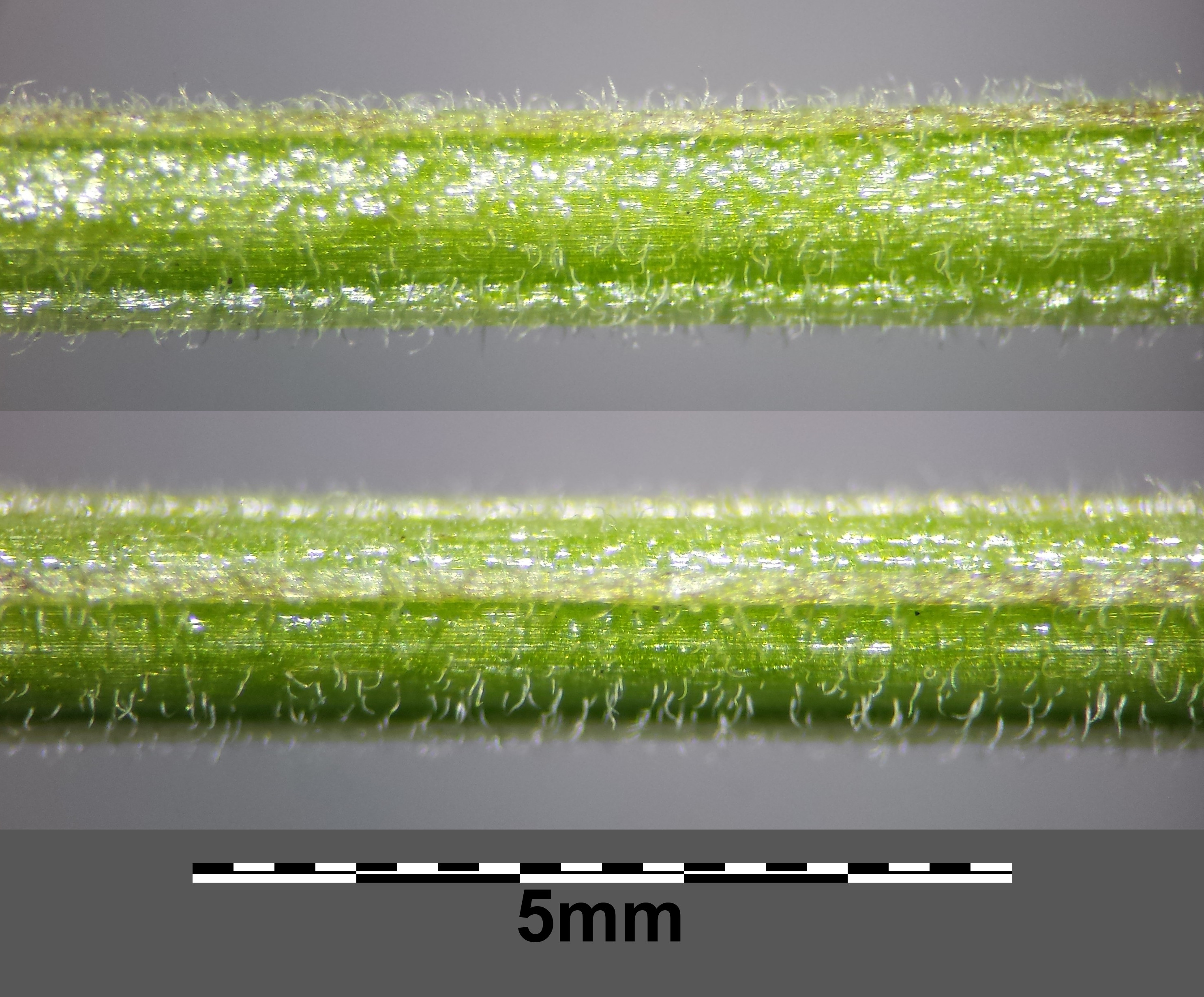 4-angled lower part of stem Taxonym: Galium ×pomeranicum ss Fischer et al. EfÖLS 2008 ISBN 978-3-85474-187-9 Location: Neue Donau, Vienna-Floridsdorf - ca. 160 m a.s.l. Habitat: dry slope